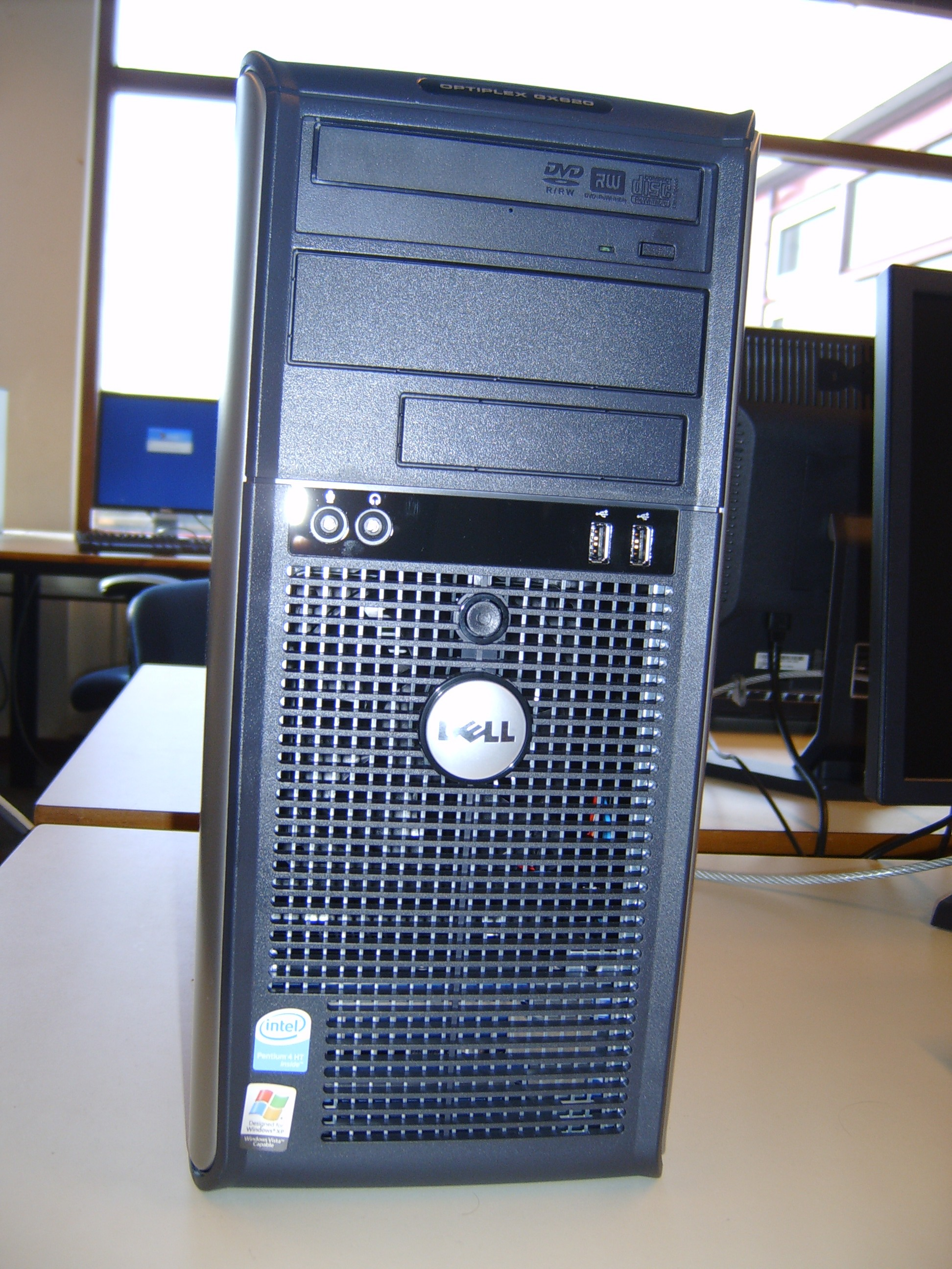 A Dell Optiplex GX320.